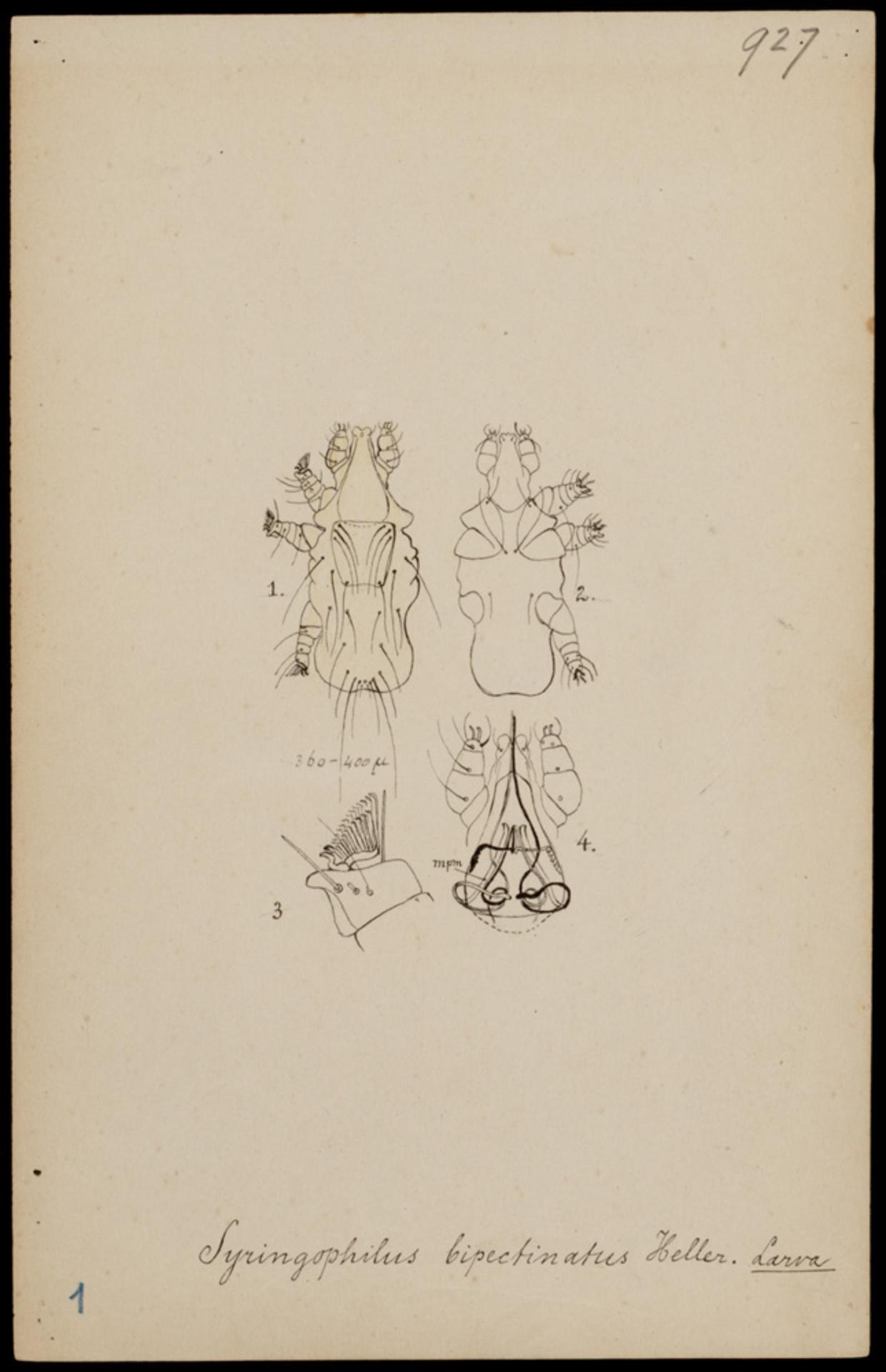 Syringophilus bipectinatus (Heller)